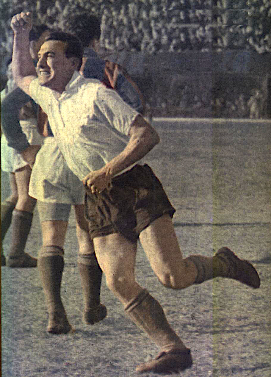 Vernazza playing for Platense